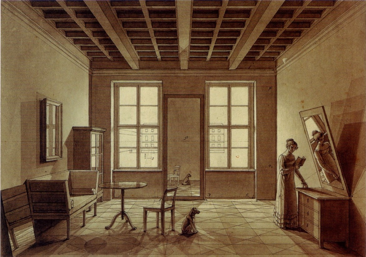 A so called "Zimmerbild" (chamber painting). Berlin, Germany. Early Victorian period.